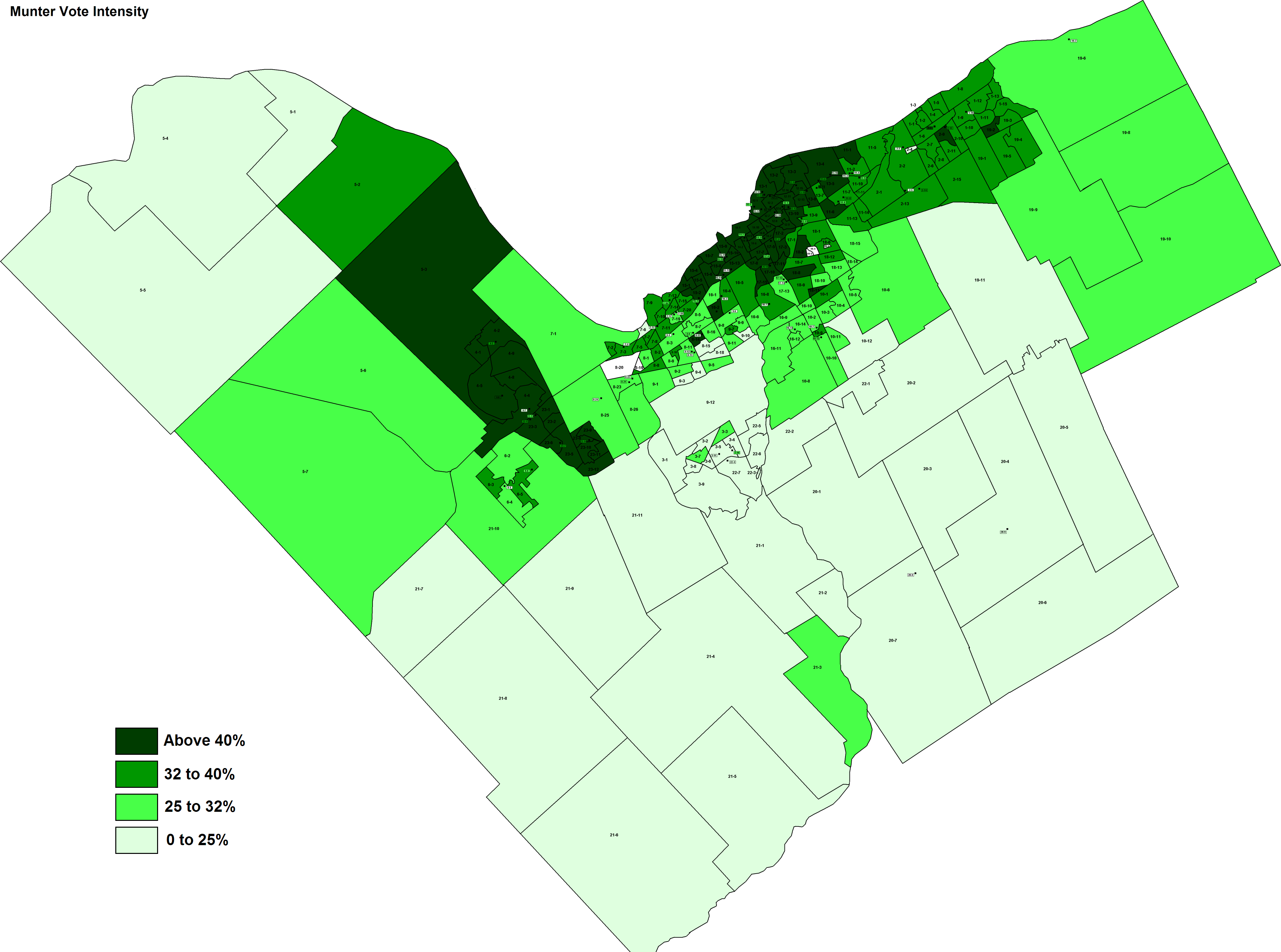 Intensity of Alex Munter's vote in the 2006 election